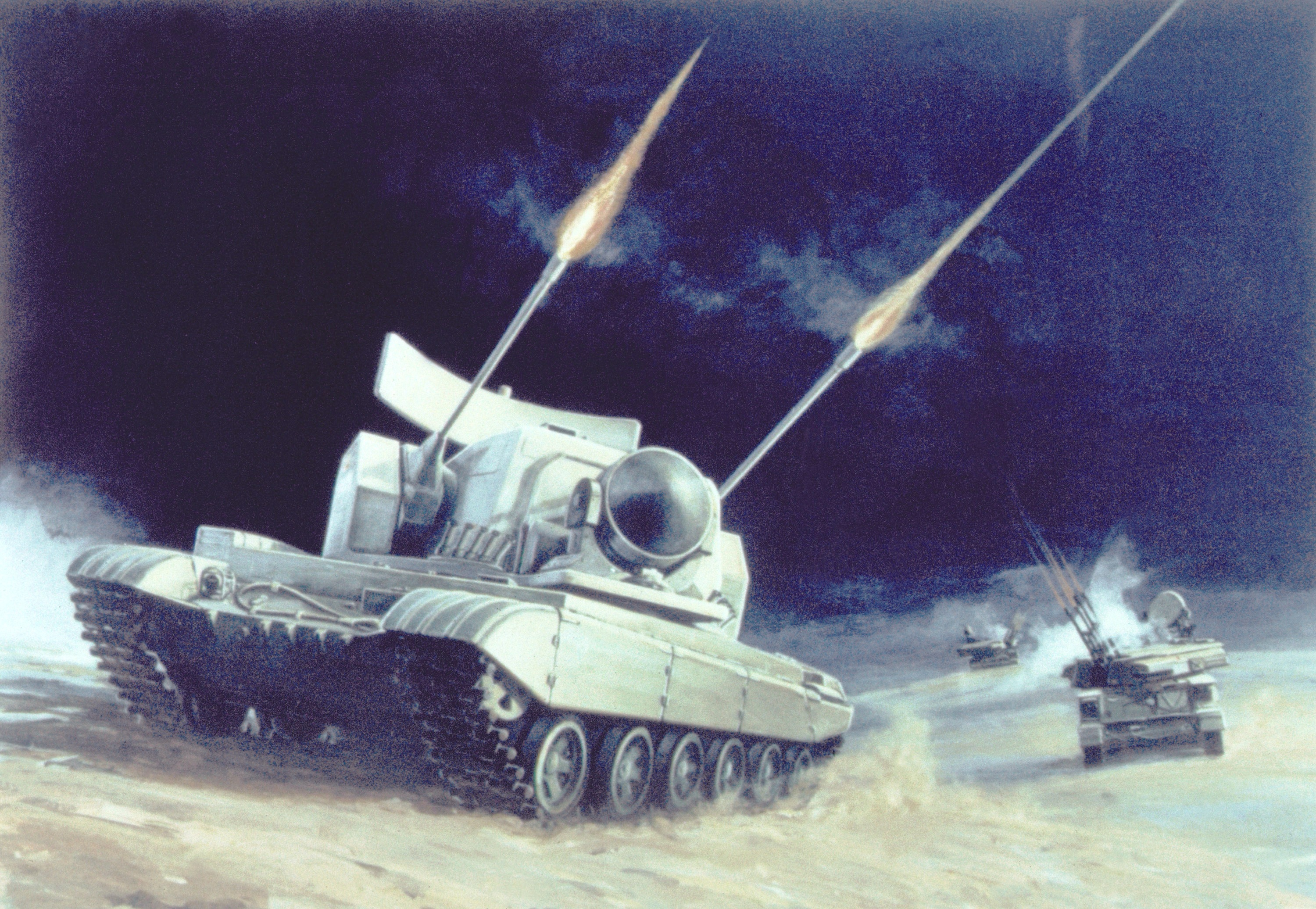 The 2S6, deployed in the 1980s, was the newest antiaircraft system designed to operate with the motorized rifle and tank divisions. The 30-mm 2S6 represented a significant improvement over the older ZSU-23-4 and complemented the Soviet's highly effective surface-to-air missiles.